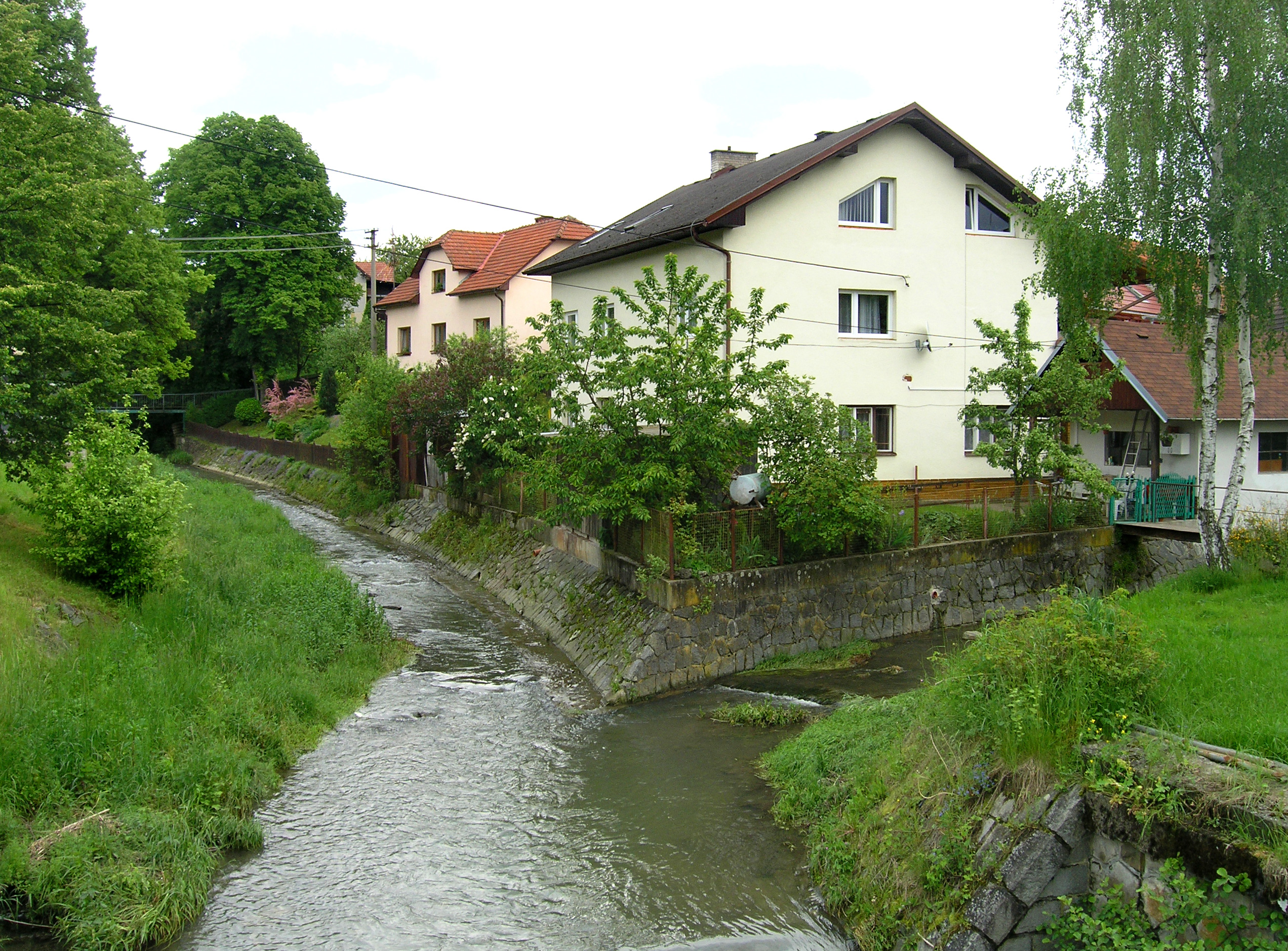 Lutonina village, Czech Republic